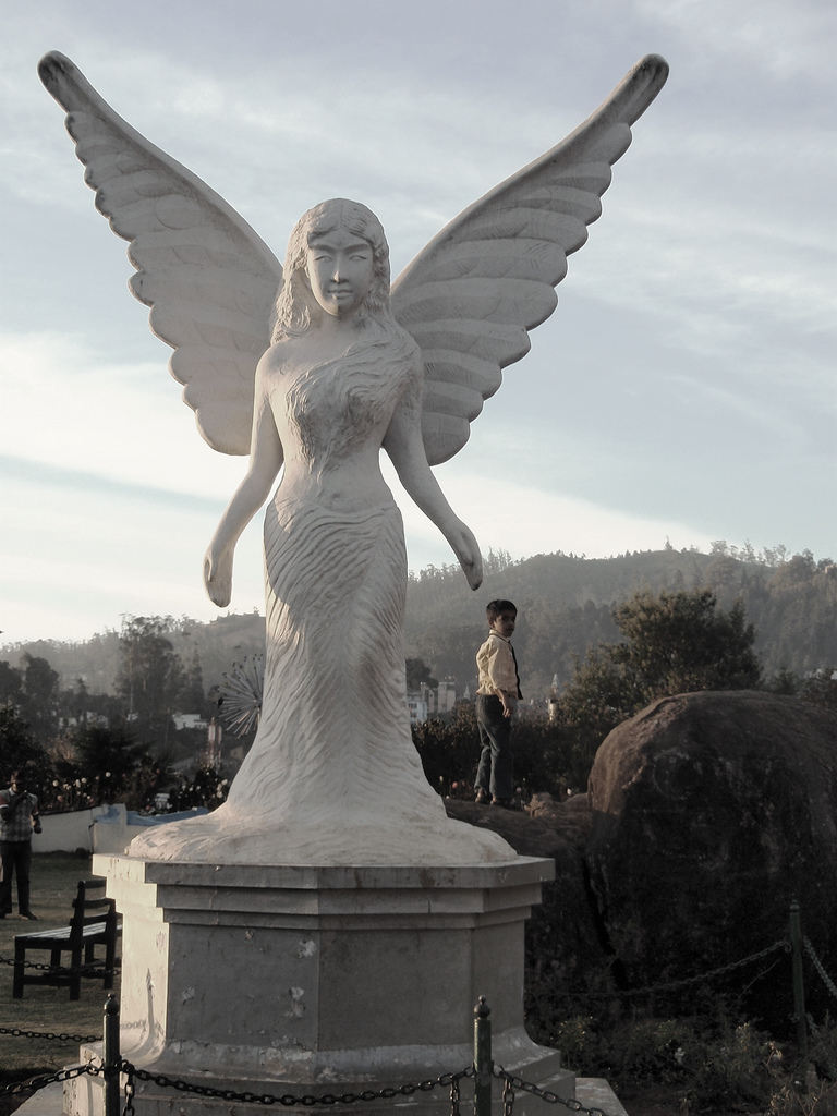 Author: Satheesh Kumar. K Source URL: This photo was taken on January 25, 2009 using an Olympus u840,S840. This work is licensed under the Creative Commons Attribution 3.0 License.